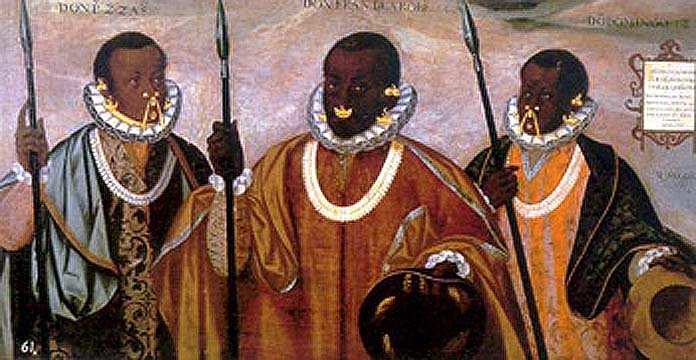 Portraits of Francisco de Arobe and his two sons don Pedro and don Domingo